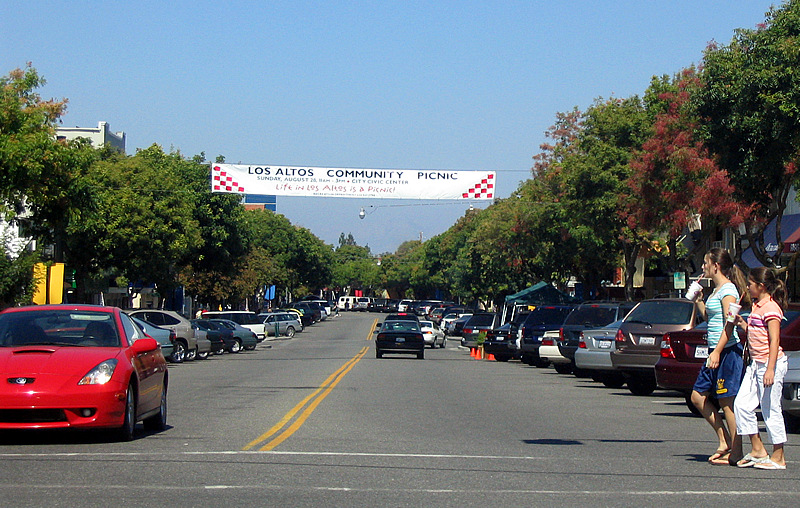 Main Street in downtown Los Altos. Los Altos is well-known throughout Silicon Valley for its traditional Main Street, with typical features like tree-lined sidewalks, diagonal parking, small shops, and banners.